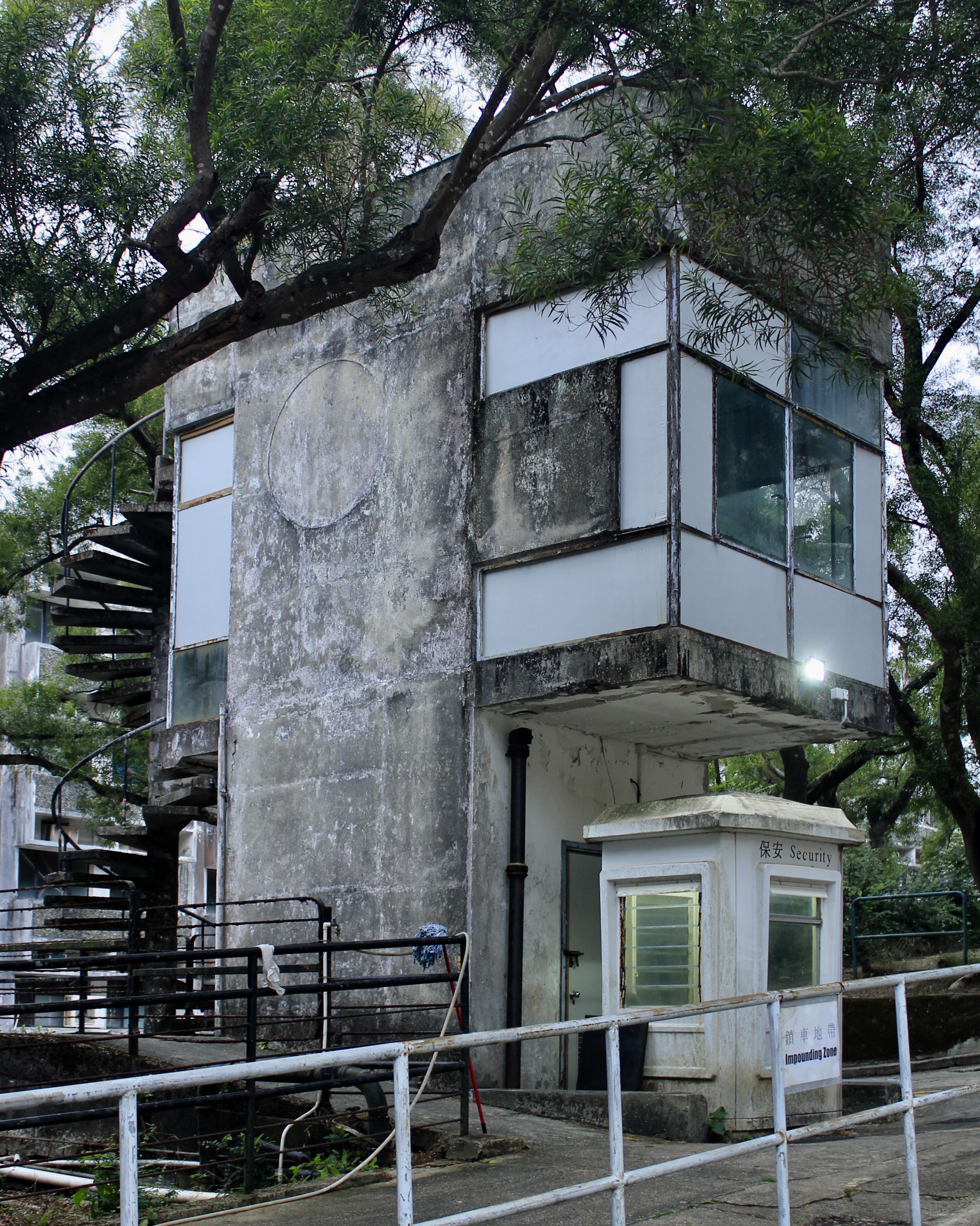 This guard house is located inside the former Shaw Brothers Studio, it was listed as "Grade III Historic Buildings in Hong Kong" in March 2016.